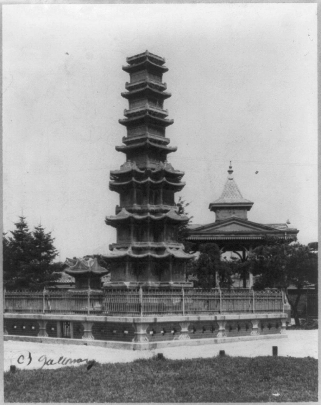 Title: Marble pagoda, which is a Buddhist monument, presented to a Korean monarch of the thirteenth century by an emperor of China Physical description: 1 photographic print. Notes: Photograph, copyright by Burton Holmes from Ewing Gallwoay, New York.; Title and other information transcribed from caption card and item.; Frank and Frances Carpenter Collection (Library of Congress).; LOT subdivision subject: Korea.